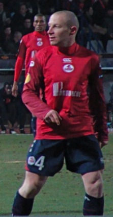 Florent Balmont (LOSC), football player